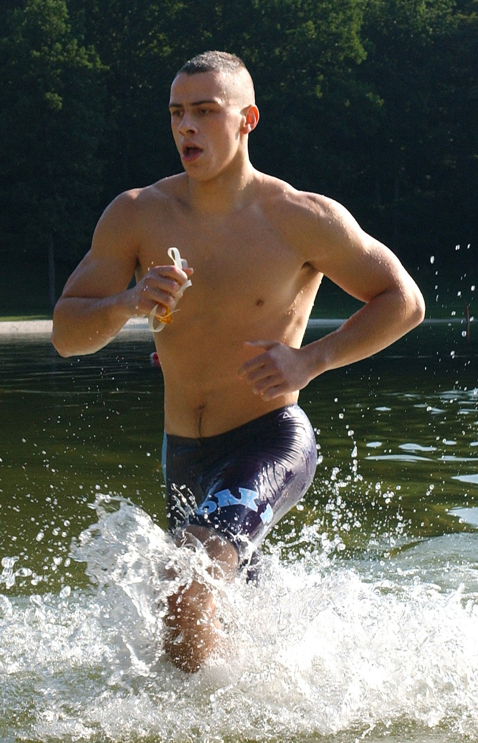 A Marine of the United States Marine Corps runs through a creek. Original caption: "Lance Cpl. Anthony M. Madonia emerges from the water during the swimming portion of the triathlon. Marines and Sailors of Marine Security Company and the Naval Support Facility in Thurmont, Md., participated in the Catoctin Mountain Triathlon, July 20."